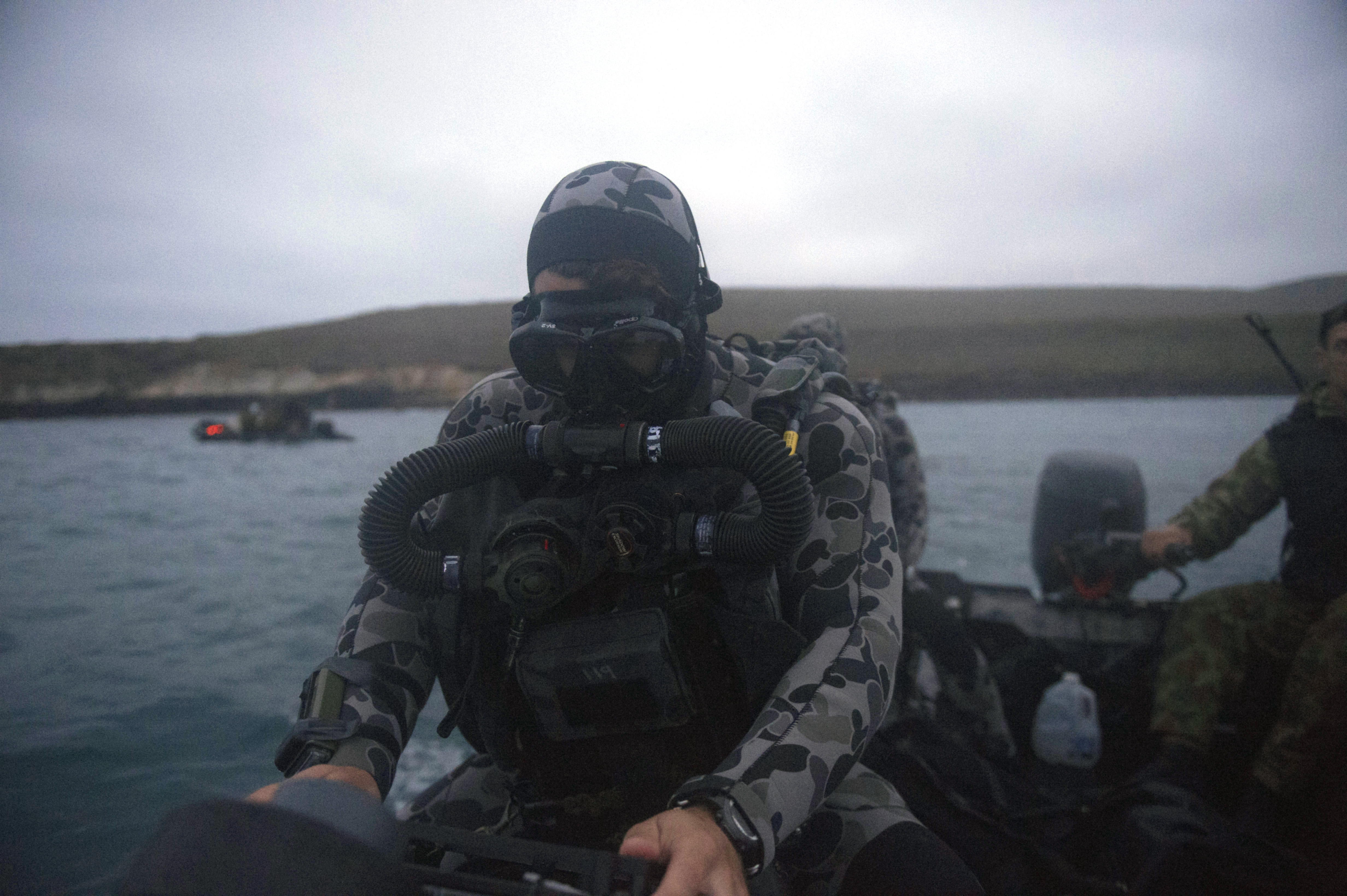 Pacific Ocean (July 24, 2016)-- A Royal Australian Navy Clearance Diver, operating from amphibious dock landing ship USS Pearl Harbor (LSD 52), prepares for an underwater surveillance exercise using Divex Shadow Excursion rebreather, during the Southern California portion of Rim of the Pacific 2016. Twenty-six nations, more than 40 ships, five submarines, 200 aircraft and 25,000 personnel are participating in the biennial exercise. RIMPAC, the world’s largest international maritime exercise, is designed to foster and sustain cooperative relationships to ensure the safety of sea lanes and security of the world’s oceans. RIMPAC 2016 is the 25th exercise of the series that began in 1971. (U.S. Navy photo by Mass Communication Specialist 2nd Class Stacy M. Atkins Ricks/ Released)